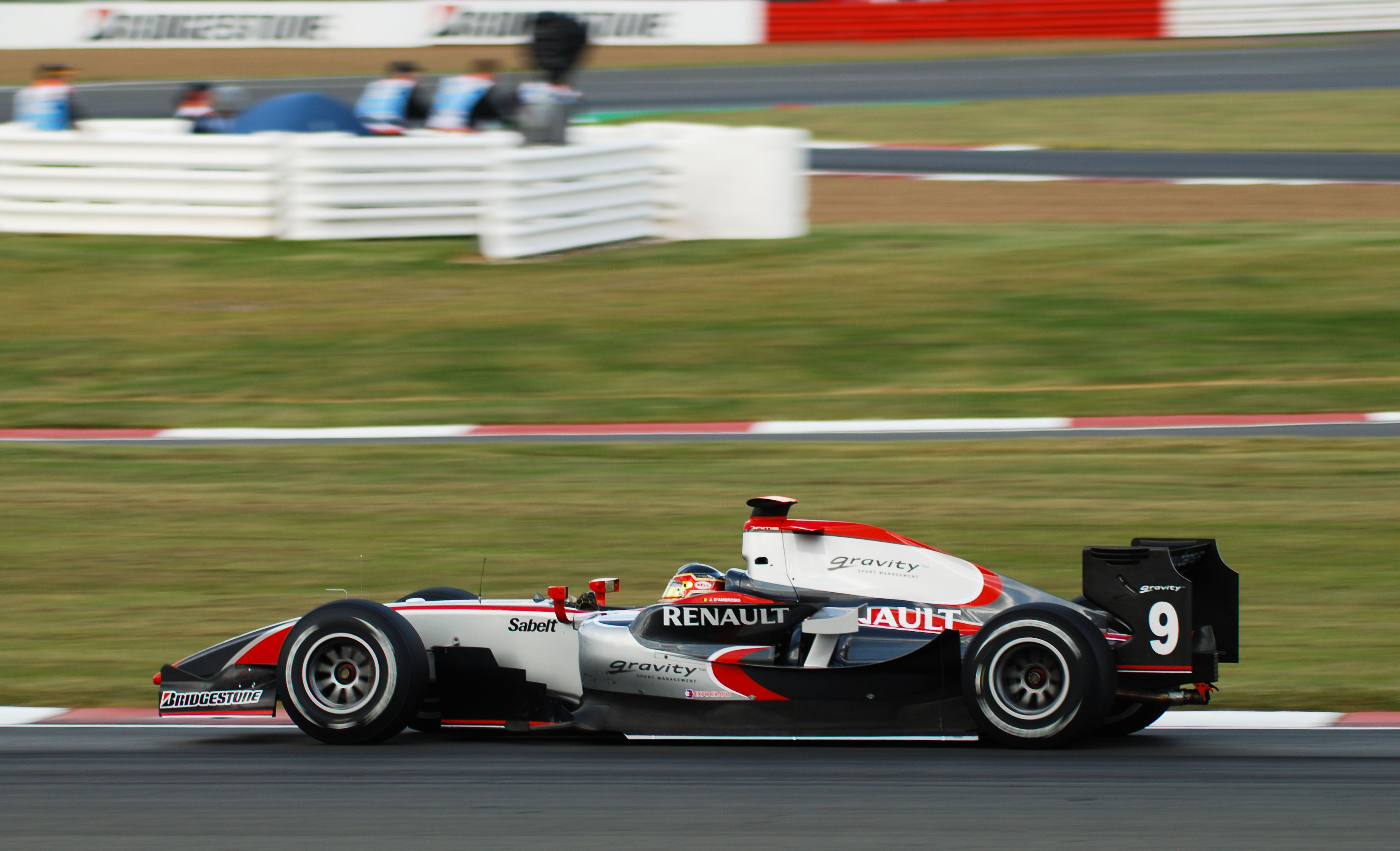 Jérôme d'Ambrosio driving for DAMS at the Silverstone round of the 2008 GP2 Series season.